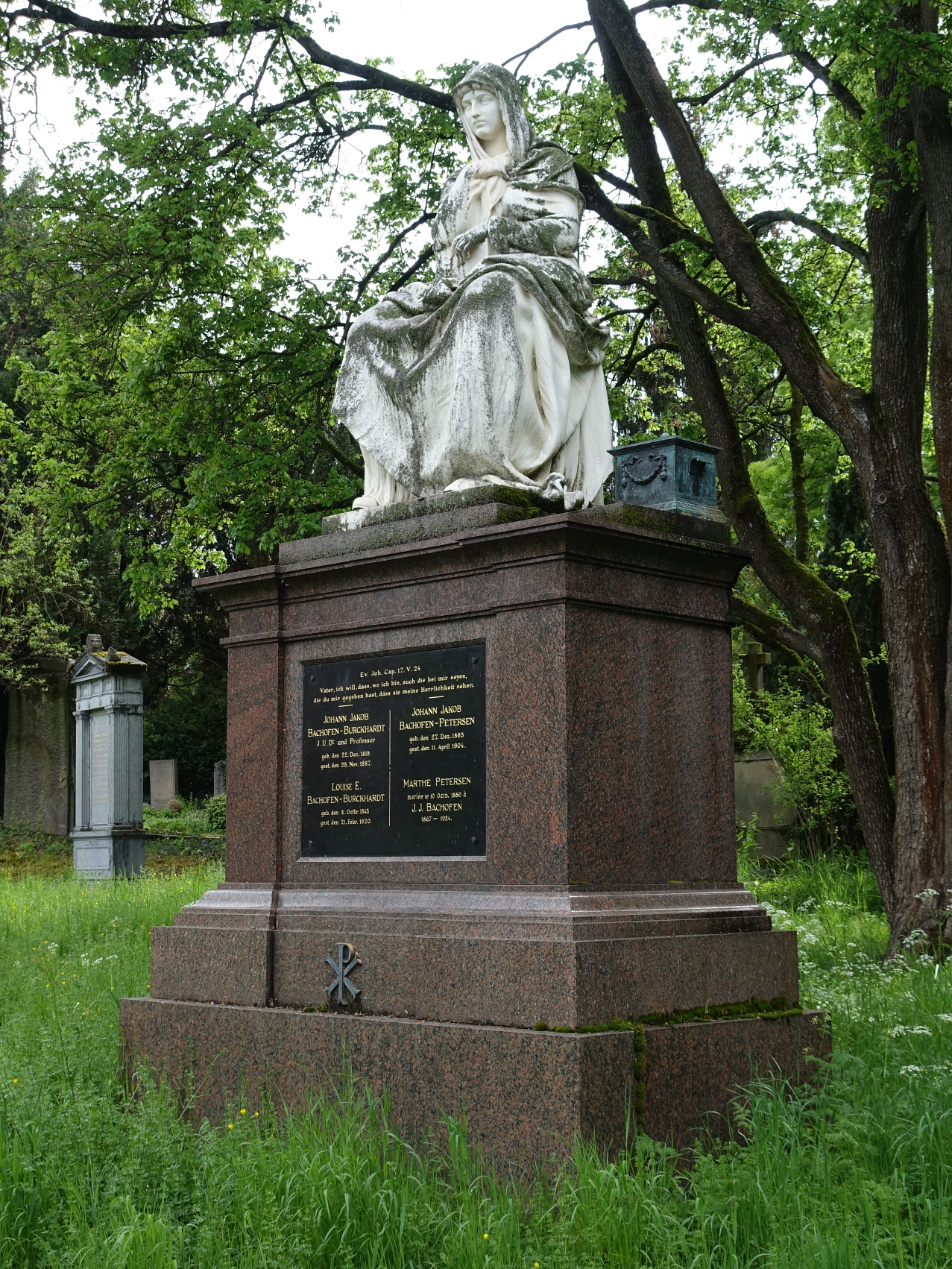 Grab Denkmal von Richard Kissling (1848-1919) Bildhauer, Medailleur für Johann Jakob Bachofen-Burckhard (1815-1887) Rechtsgelehrter, Altertumsforscher, Familien Grab Bachofen-Burckhardt- Petersen, Friedhof Wolfgottesacker, Basel, Schweiz.